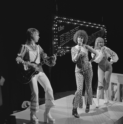 Björn Ulvaeus, Anni-Frid Lyngstad, and Agnetha Fältskog at the Eddy Go Round Show.